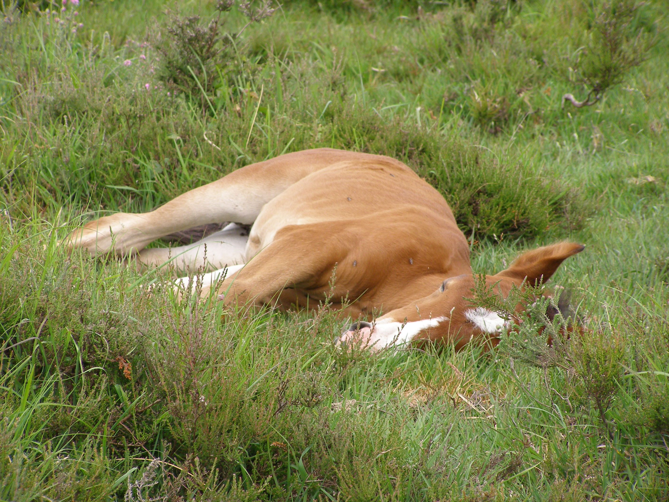 A dozing foal at Matley Passage.